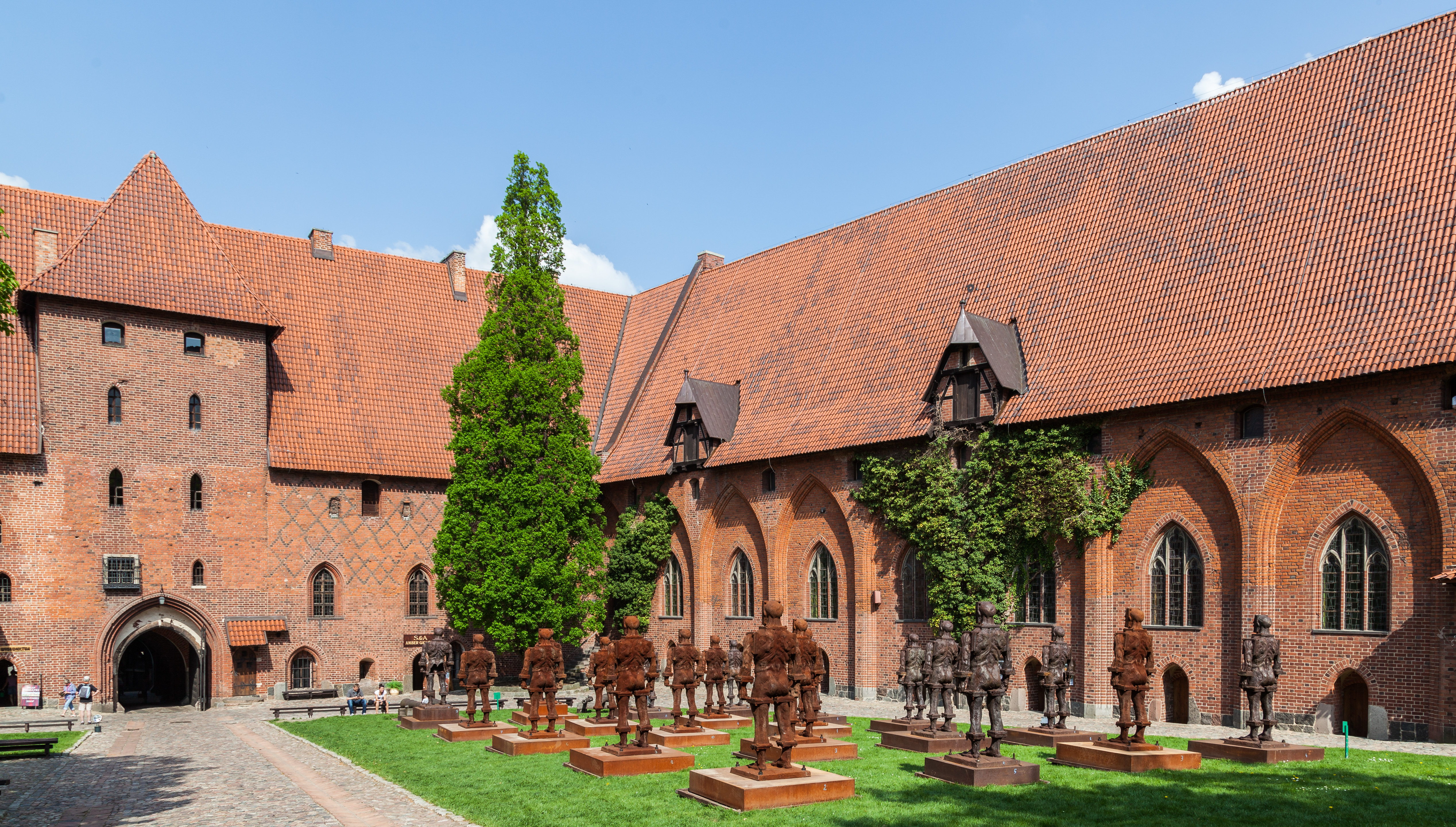 Array of iron warriors (Zbigniew Fraczkiewicz) in the courtyard of the Malbork Castle, Poland.